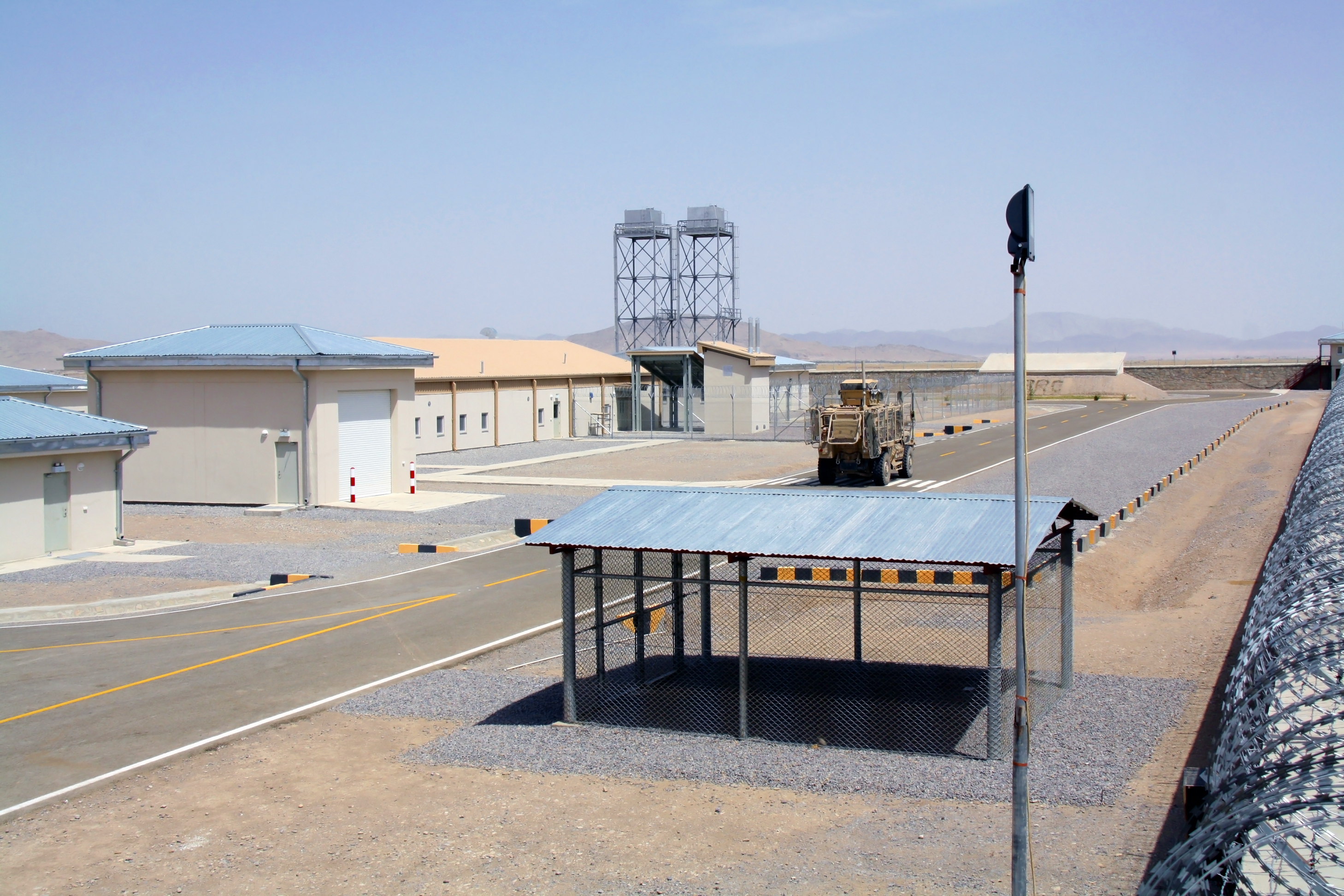 Commander of the Afghanistan Engineer District-South, Col. Vincent V. Quarles and several district civilian technical experts toured the construction site of the Afghan National Civil Order Police Patrol Battalion Facility and Provincial Response Company in the Daman District, Kandahar Province, Afghanistan. Special thanks to Tony Carter for providing images.